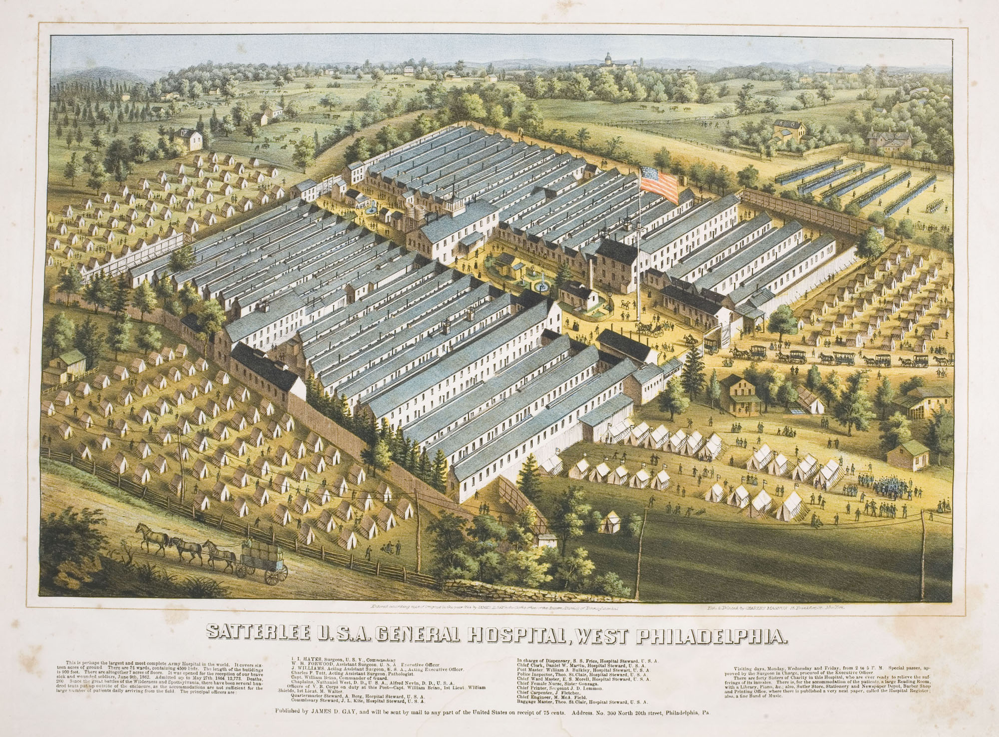 Bird’s eye view showing the hospital opened June 9th, 1862 at Forty-fourth Street and Baltimore Avenue. The hospital complex is surrounded by tents to accommodate the high number of patients as a result of the battles of Wilderness and Spotsylvania. Soldiers and visitors mill the grounds and horse-drawn ominbuses enter the compound. Outside the hospital, a horse-drawn wagon travels and soldiers drill in formation. Also contains several lines of descriptive text and the names of the principal officers printed below the image. Text describes the size and dimensions of the hospital, visiting hours, and patient services including Sisters of Charity on call, a sutler store, barber shop, printing office, and a band.